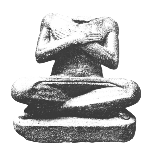 Sitting statue dedicated by Senusret I to Intef the Great. This prince of Thebes, here depicted as a scribe, was considered during the Middle Kingdom as an ancestor of the 11th dynasty. 12th dynasty, granite, H 60 cm, found in Karnak in 1899. Cairo Museum, CG 42005.